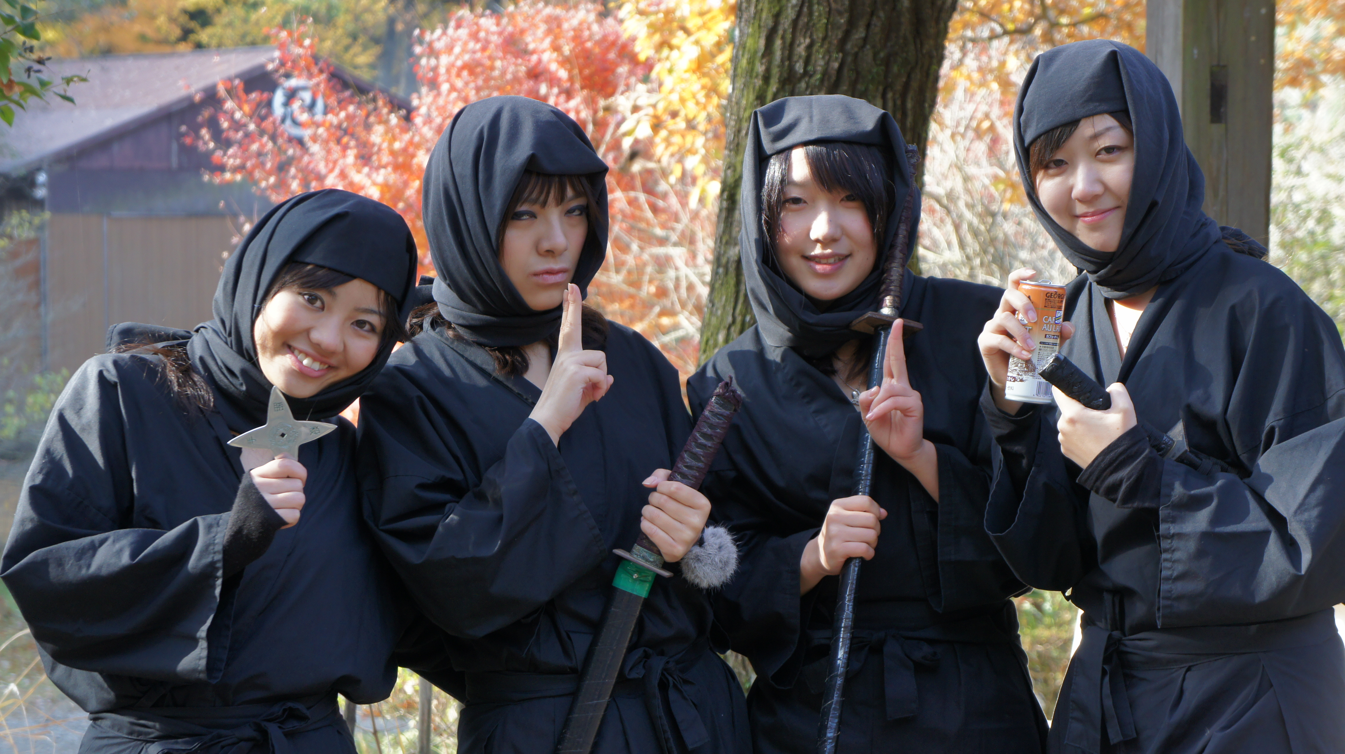 Koka was known to be the famous hometown of ninjas. That’s why we went to Koka’s Ninjutsu (ninja techniques) training camp. Away from the everyday life, we become for a short time real ninjas.